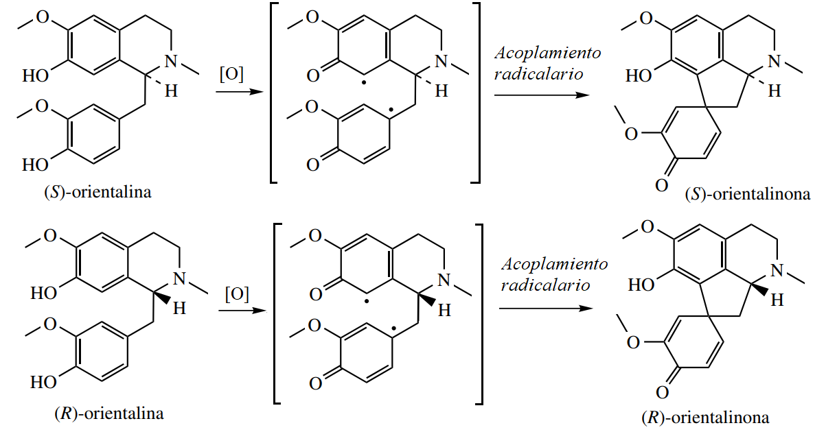 Proaporphines biosynthesis